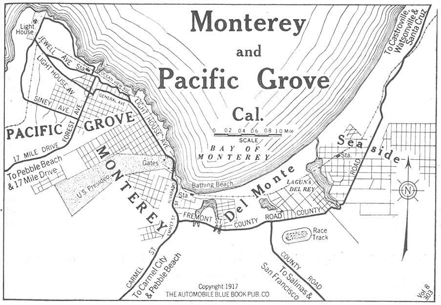 Monterey Bay area in 1917, originally listed at